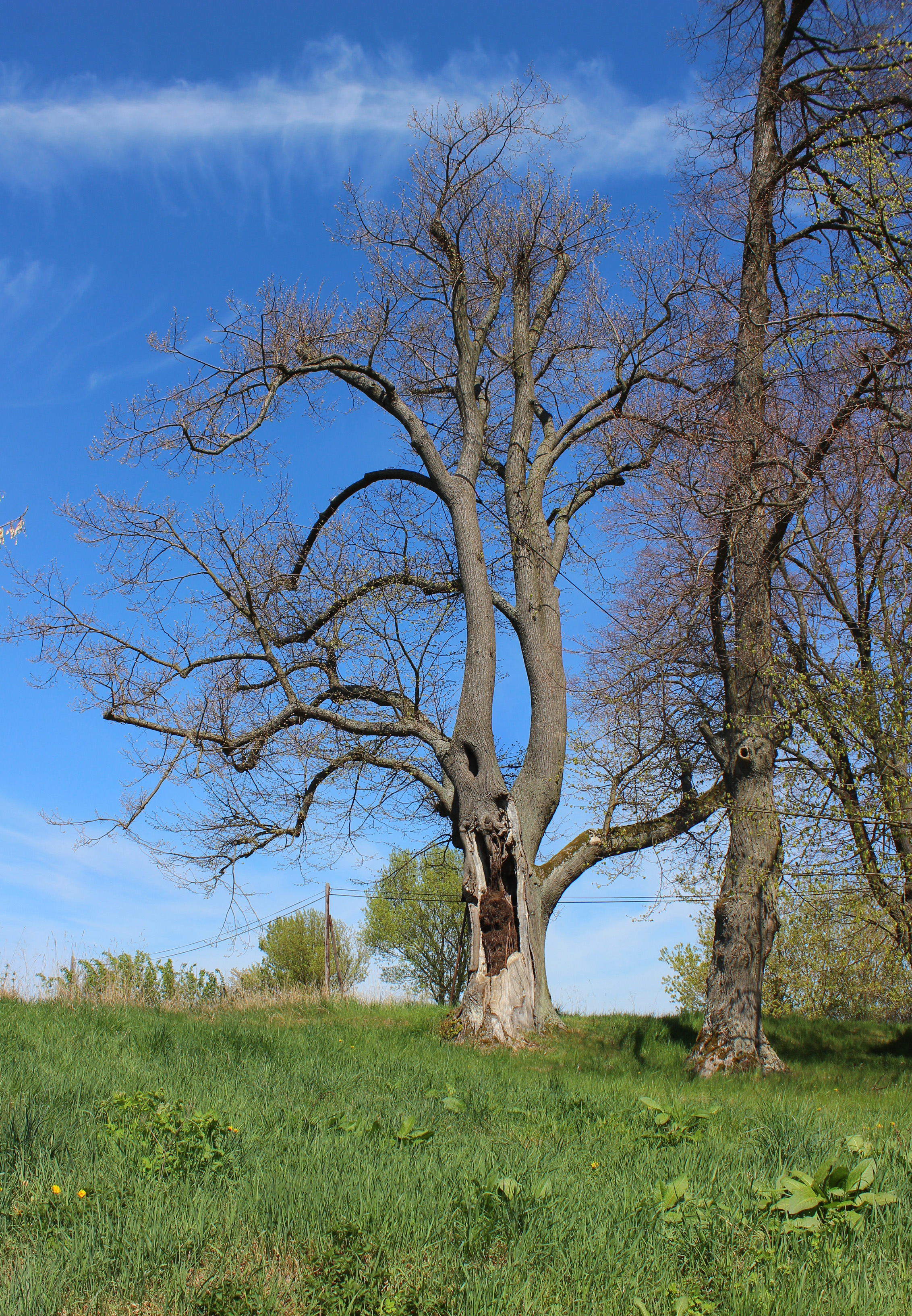 Protected lime tree in Slavice village, part of Horní Kozolupy, Czech Republic